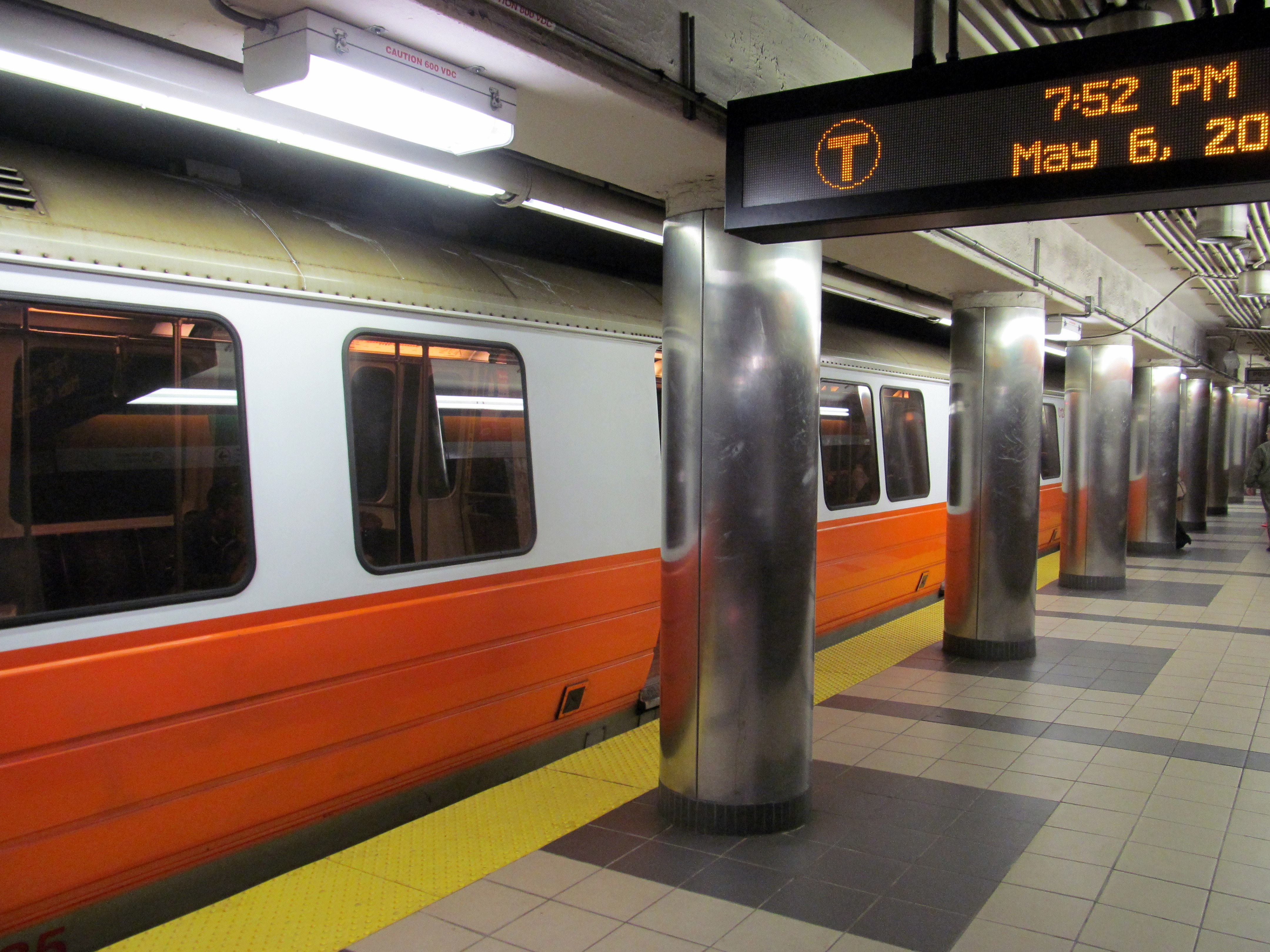 An inbound Orange Line train at Haymarket station